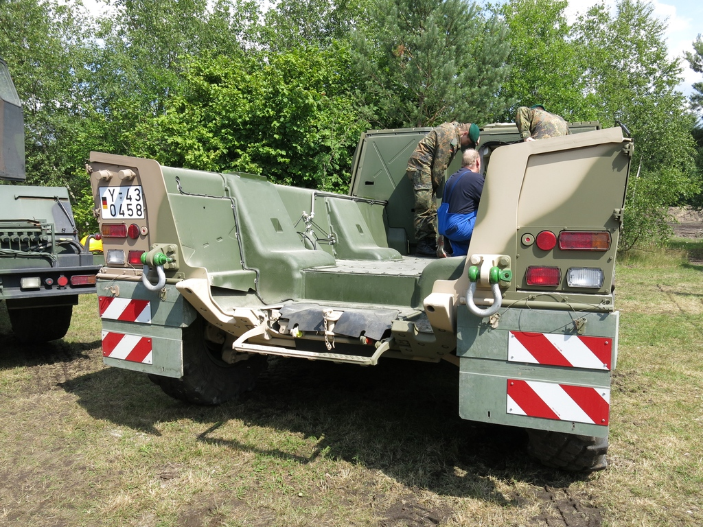 German Army Boxer base vehicle, view from behind, mission module dismounted, Open day Munster Training Area 2015